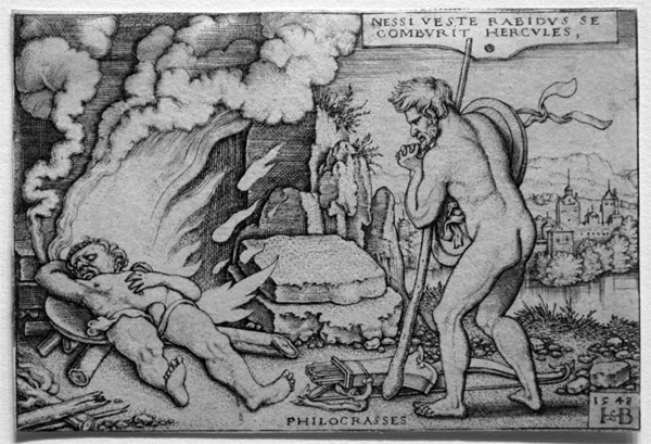 «Hercules on his funeral pyre», engraving